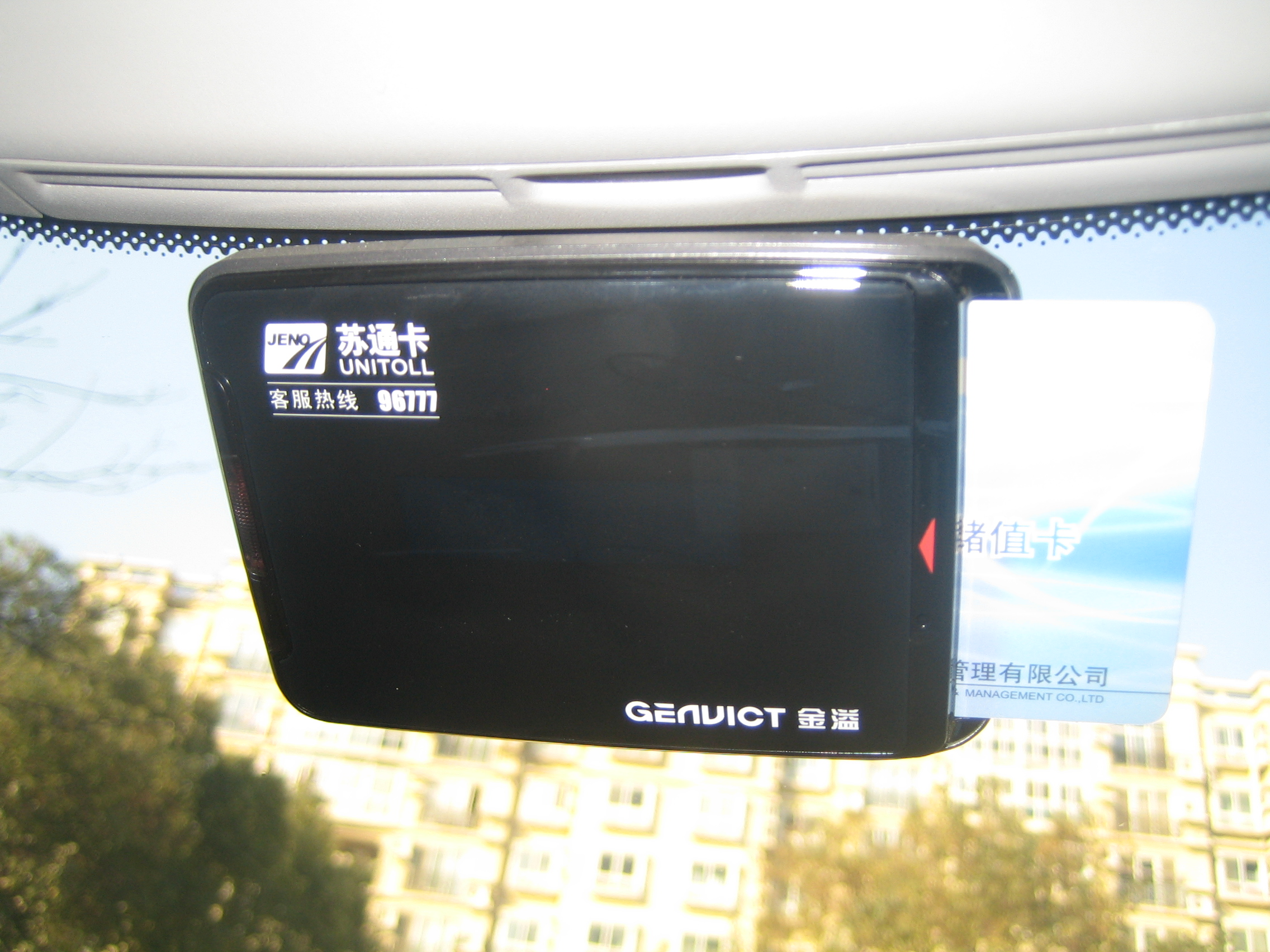 The ETC equipment, equipped in Jiangsu, China.